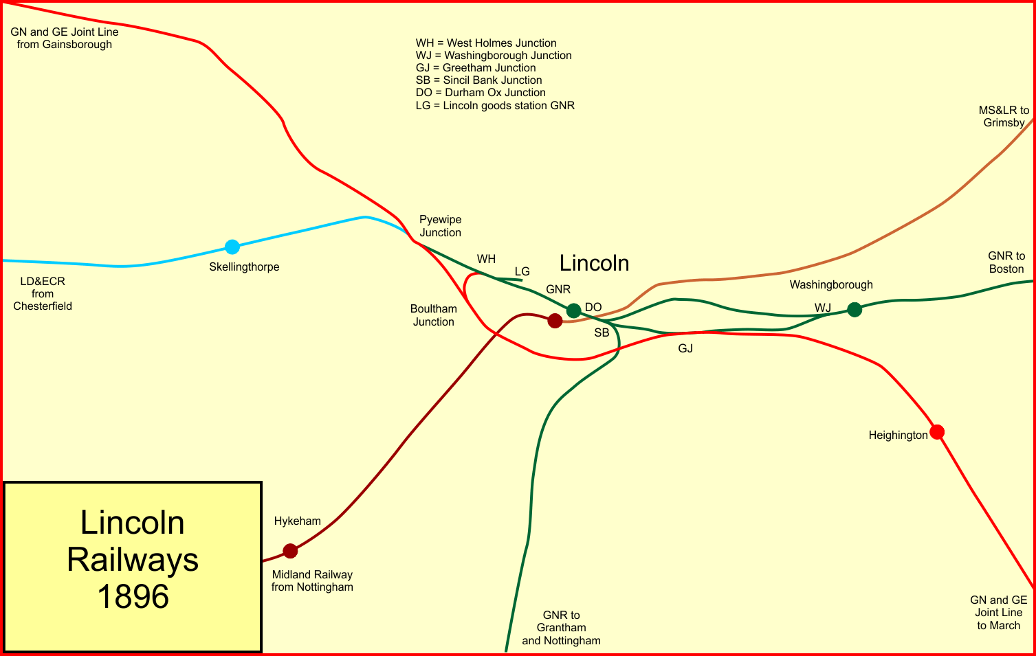 Lincoln railway network, England, in 1896